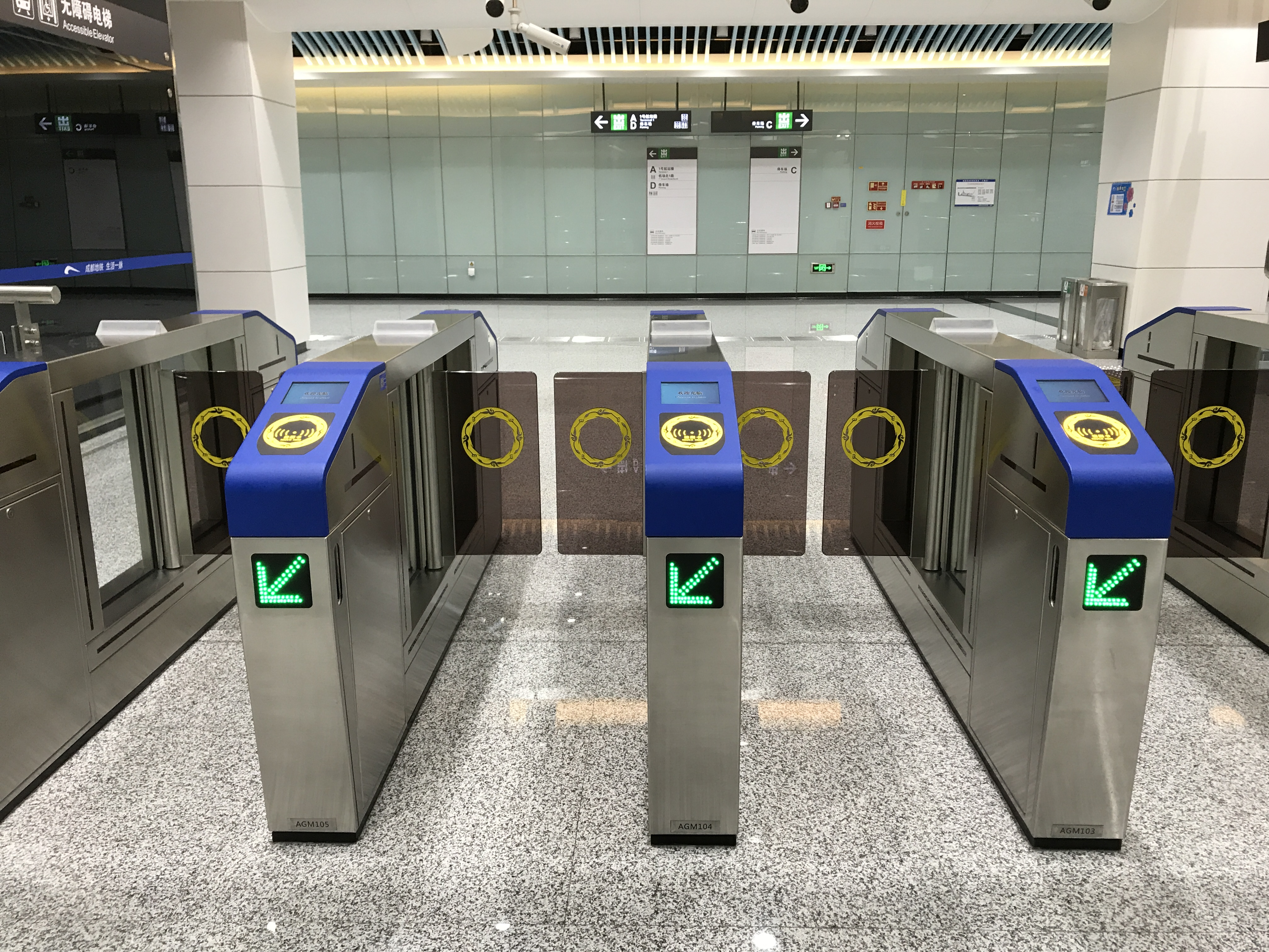 Turnstile in Terminal 1 of Shuangliu International Airport Station, Line10, Chengdu Metro